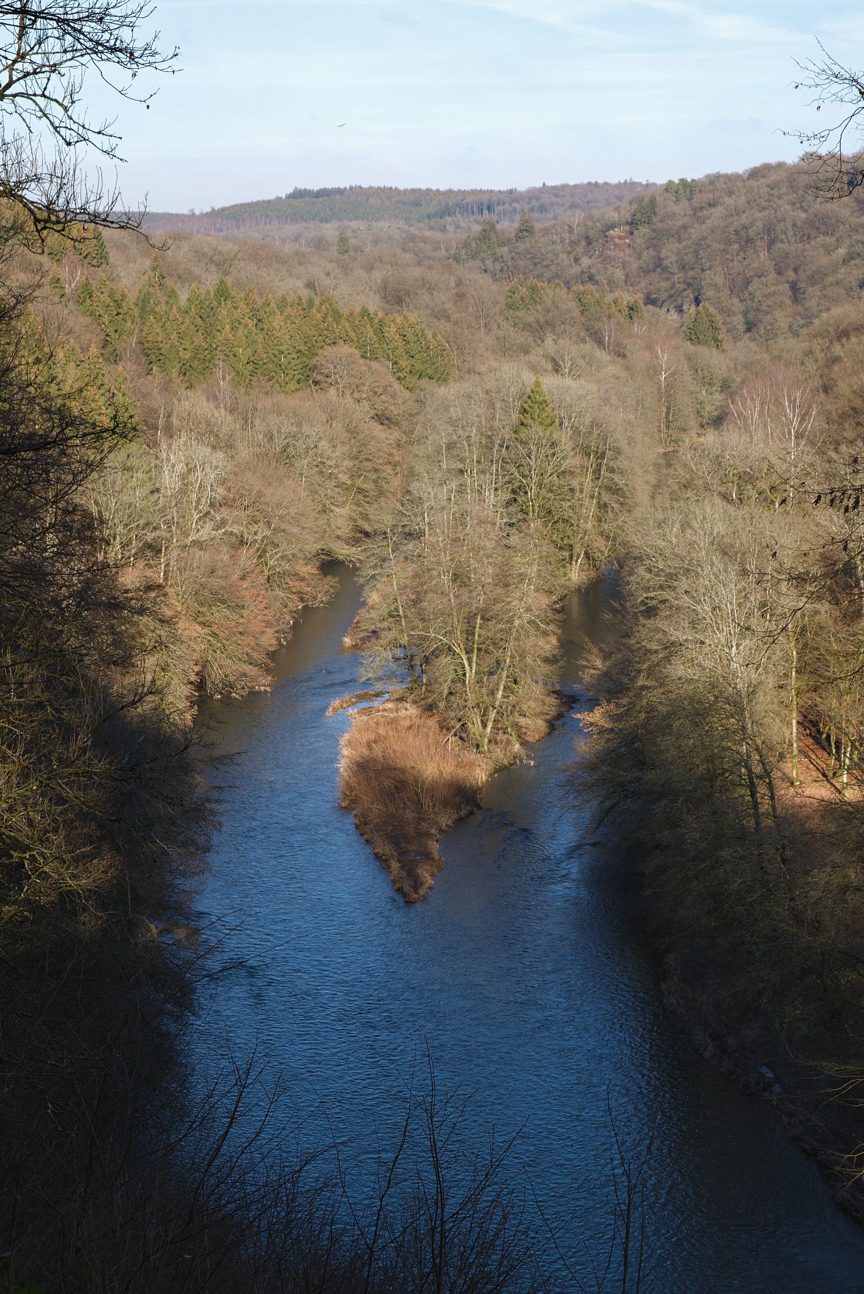 La Semois river viewed from the GR-16 / GR-129 / E3 in Parc Naturel de Gaume, Florenville